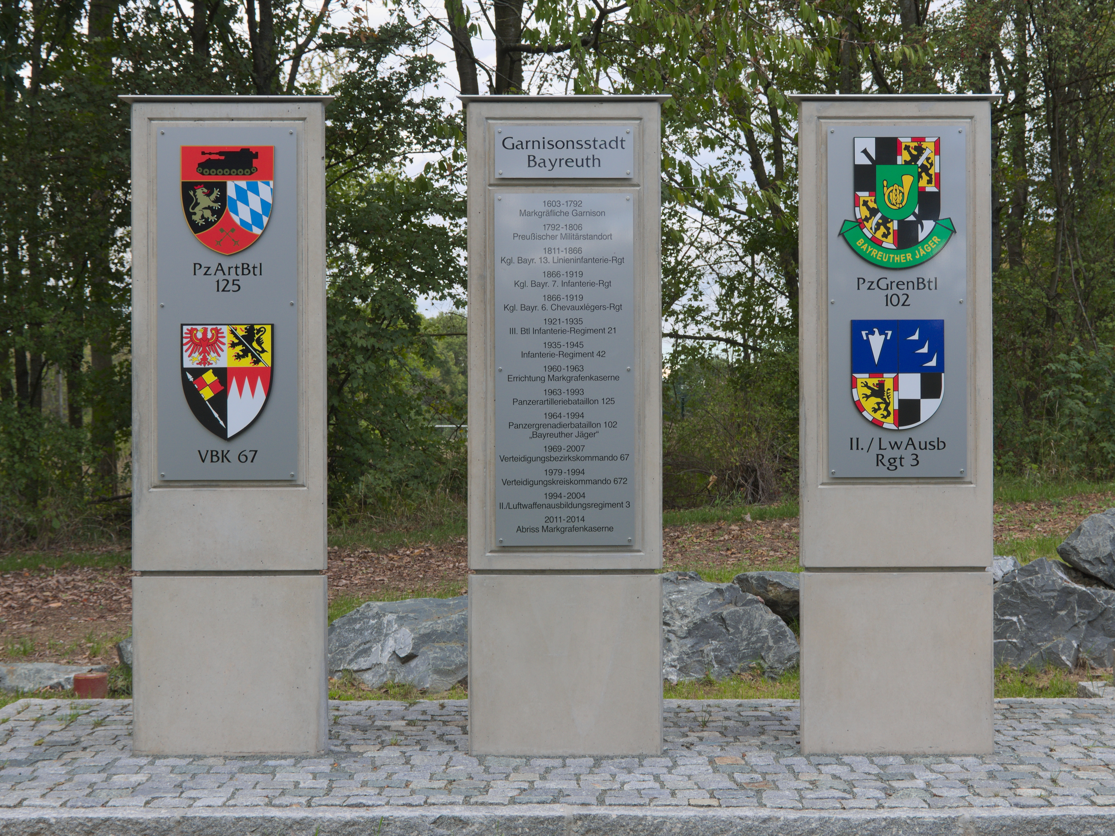 Memorial for the Markgrafenkaserne in Bayreuth, Germany (built 1960–1963, demolished 2011–2014